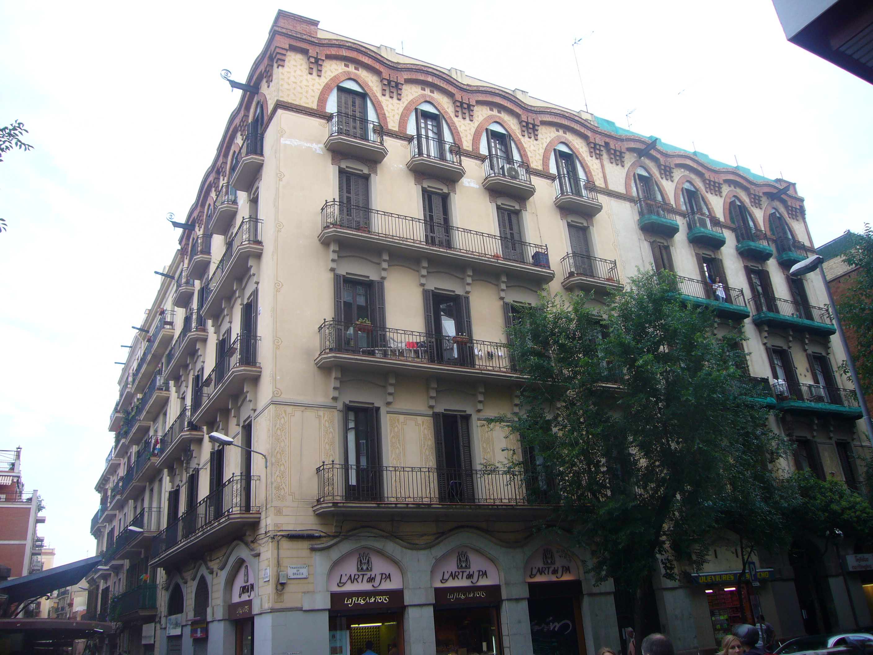 Casa Pere Folguera, in Gràcia, Barcelona